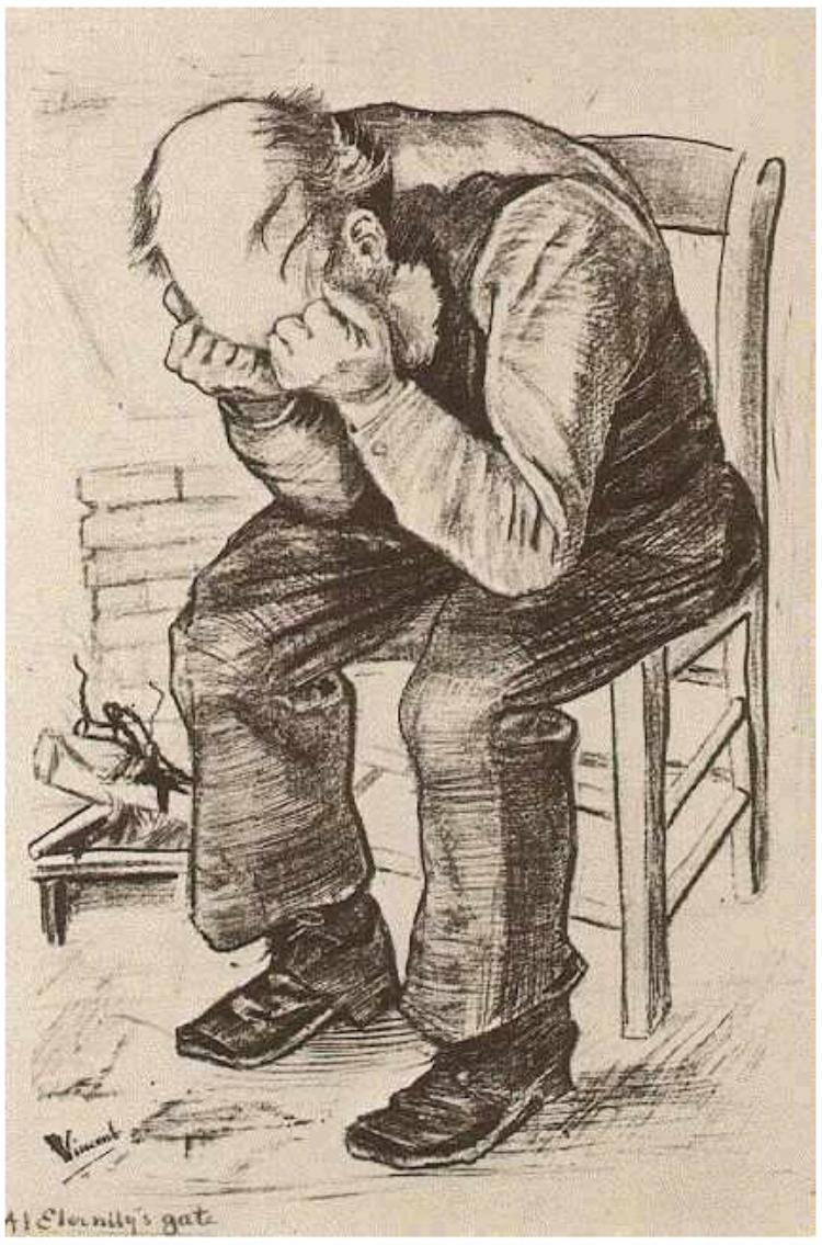 Impressions (De La Faille: n.b. these are not the same numberings as David Brooks'): I Van Gogh Museum inv nr F 1662/I II Van Gogh Museum inv nr F 1662/II III Private Collection (now the example in Tehran Museum of Contemporary Art?) IV Sale The Hague [Pulchri] 5-6 October 1937, nr 49 V Arlesheim, Arthur Stoll, cat 1961, nr 73 VI Amsterdam, Houthakker Art Gallery VII Sale Paris [Drouot] 31 March 1920, nr 71: Le vieil ourvrier pleaurant [Old Laborer Crying]. Lithographie. Fort rare.